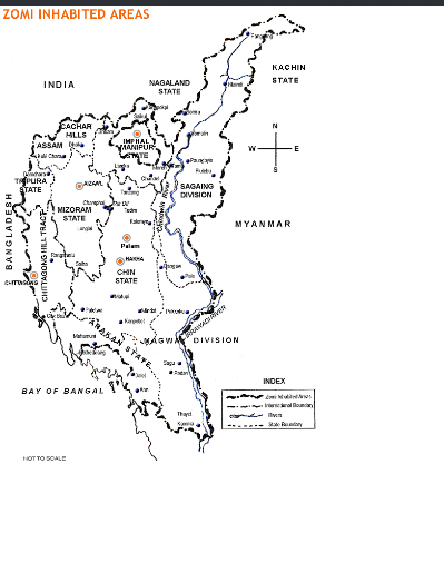 Zogam geography